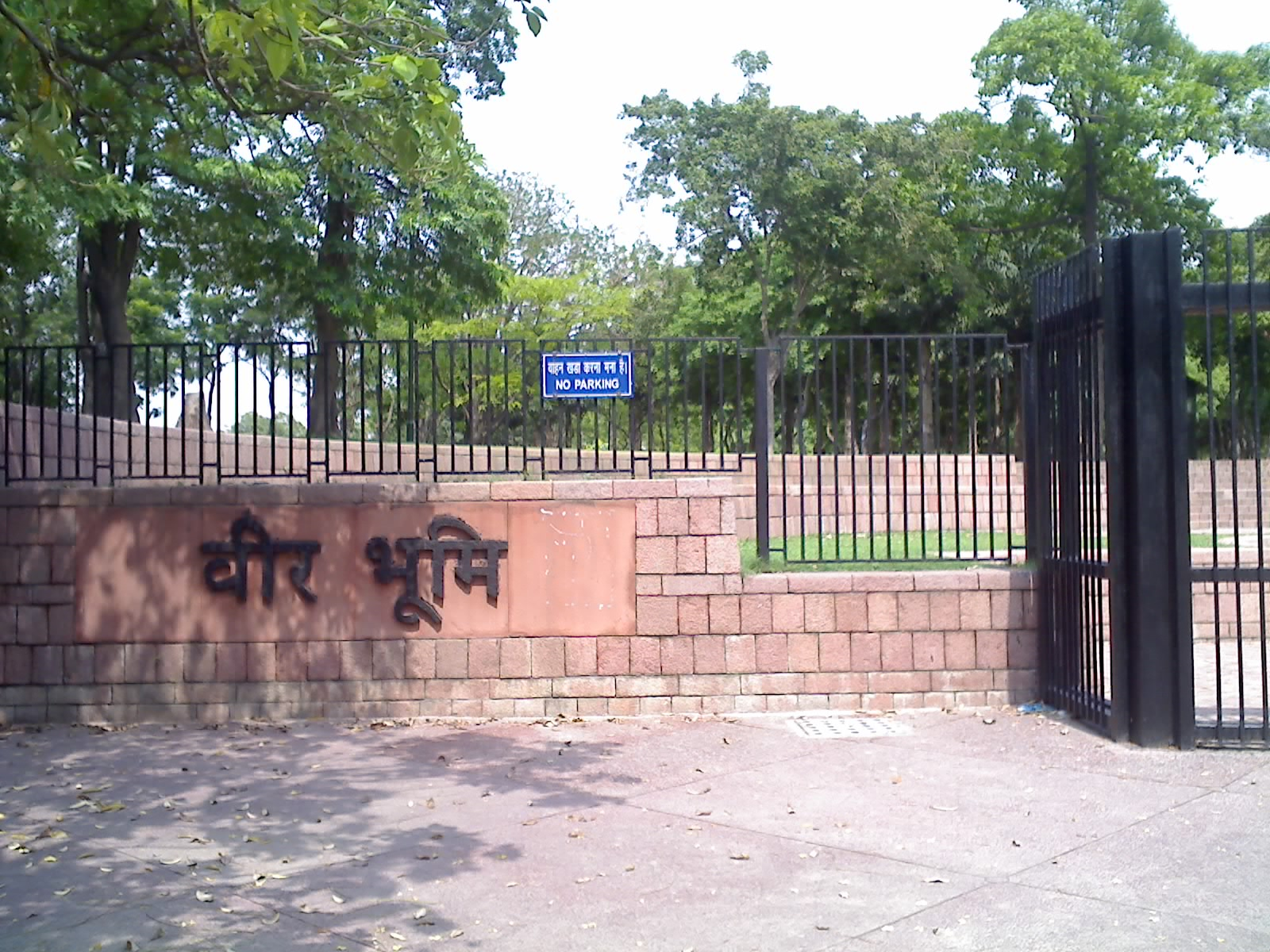 Burial memorial of Indian leaders, Vir bhumi , Delhi